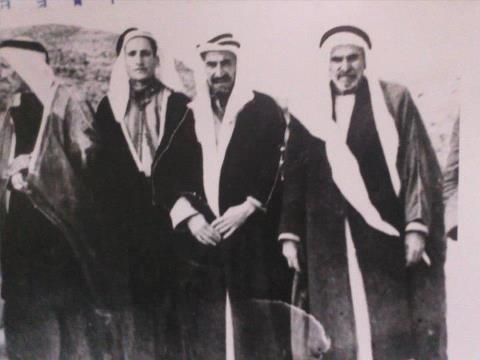 A photo taken in 1933 to Prince Rashed Al Khuzai with his followers and supporters of Jordanian leaders